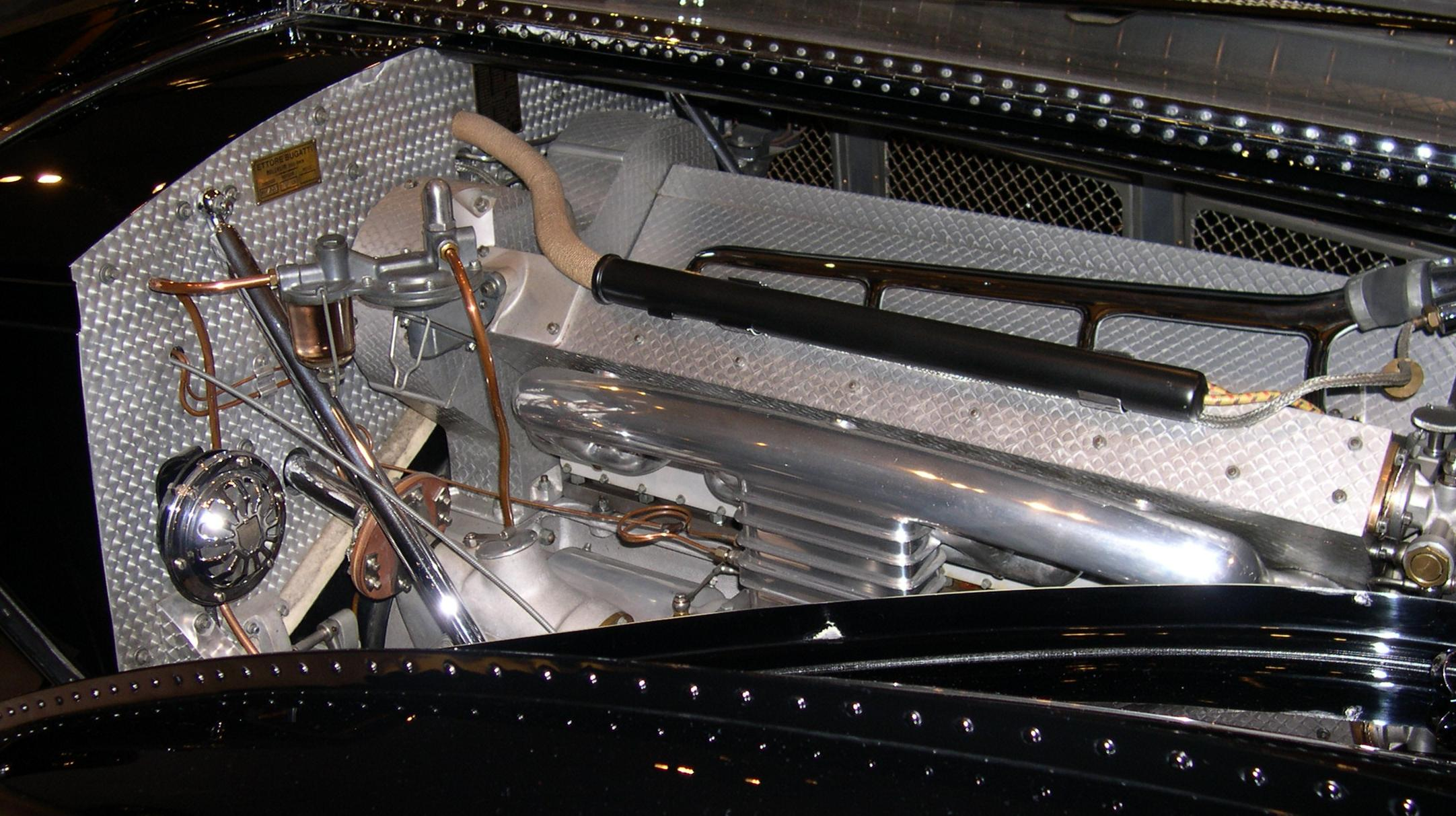 1938 Bugatti Type 57SC Atlantic From the Ralph Lauren collection on display at the Boston Museum of Fine Arts. Photo taken in 2005. Source: Photo by User:Sfoskett